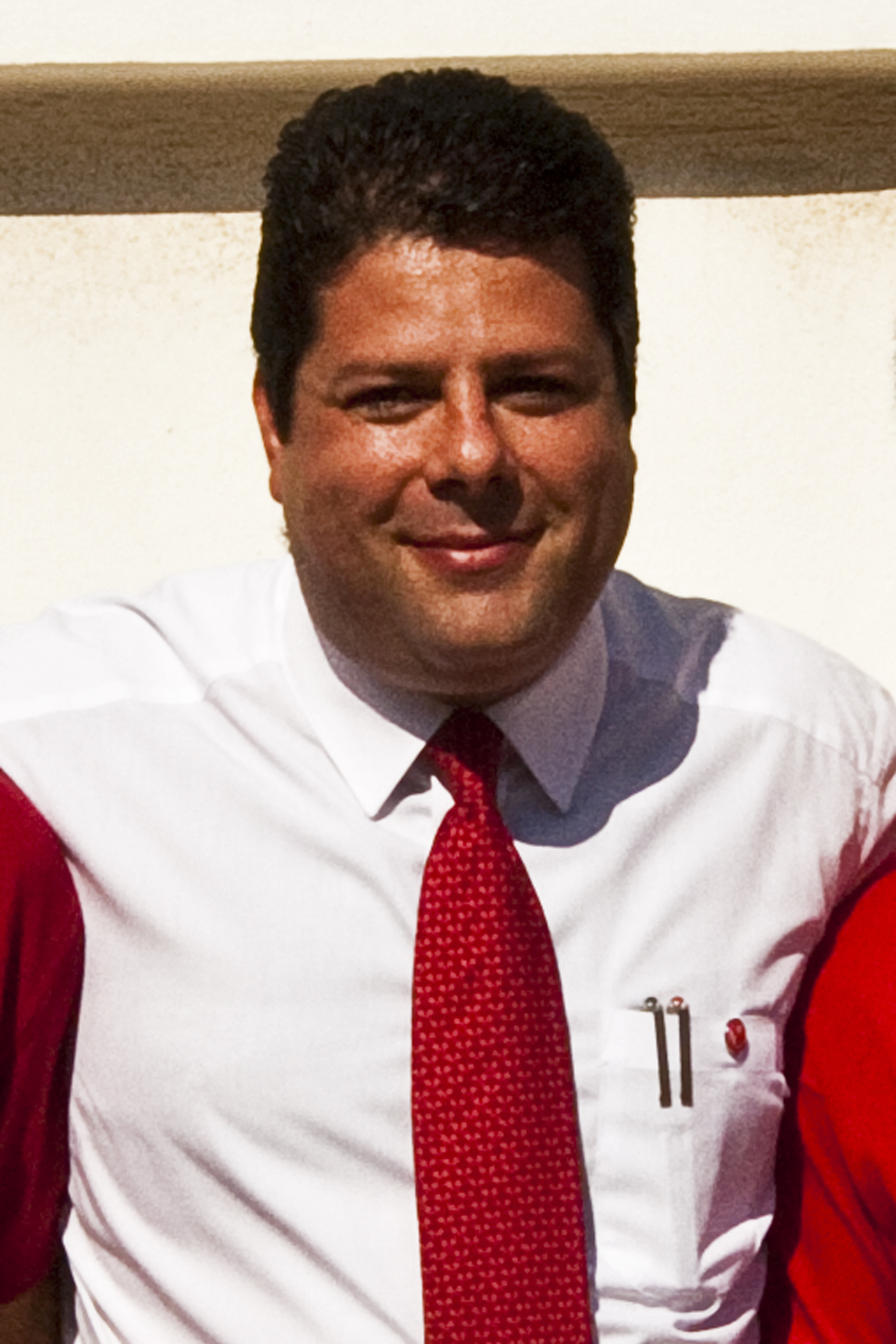 Fabian Picardo at the Gibraltar National Day Political Rally, 10 September 2011.